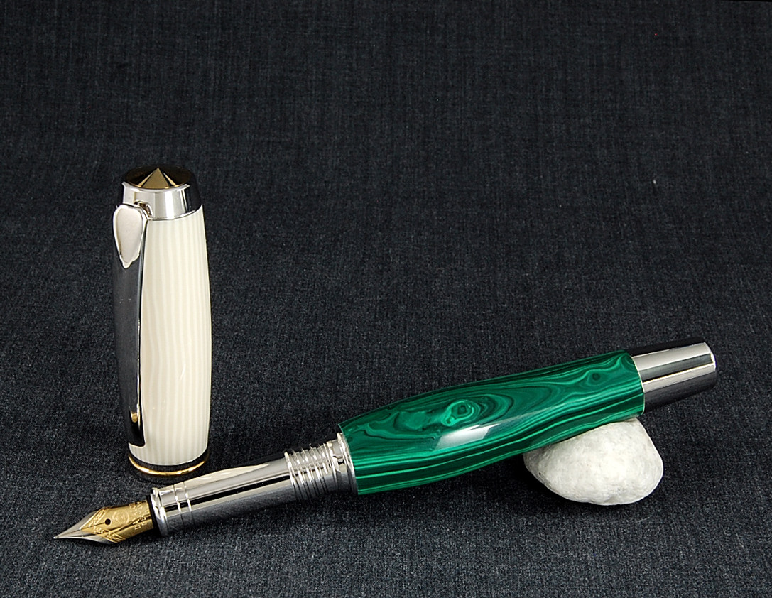 Junior Gent II Fountain Pen completed on Sept. 3, 2012 sporting a Banded Malachite Trustone body and Alternated Casein cap.